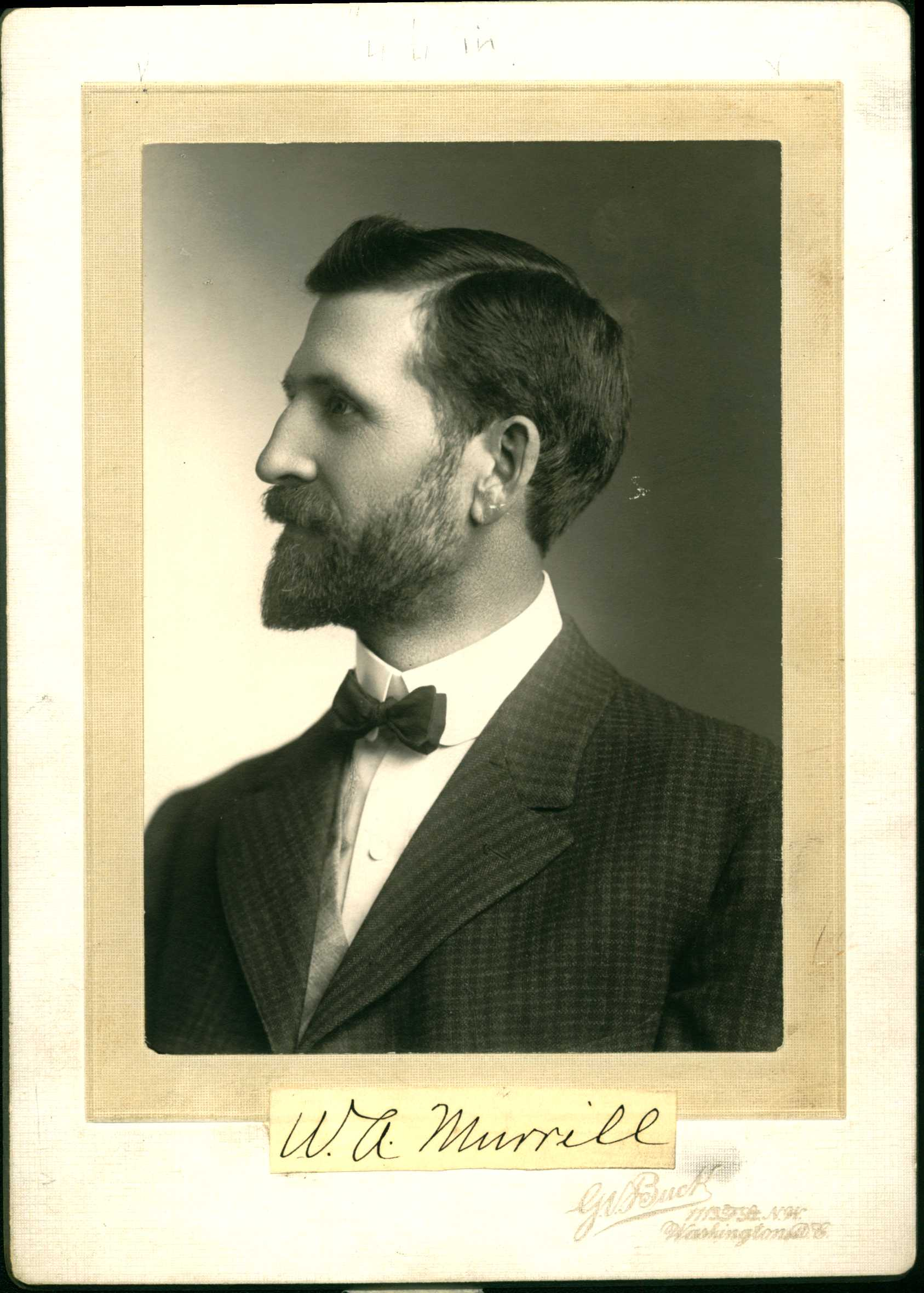 Photograph of William A. Murrill Signed: Sincerely yours, W.A. Murrill December 1907 Photo by G.V. Buck